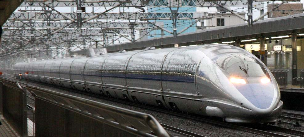 West Japan Railway Company Type 500 EMU.